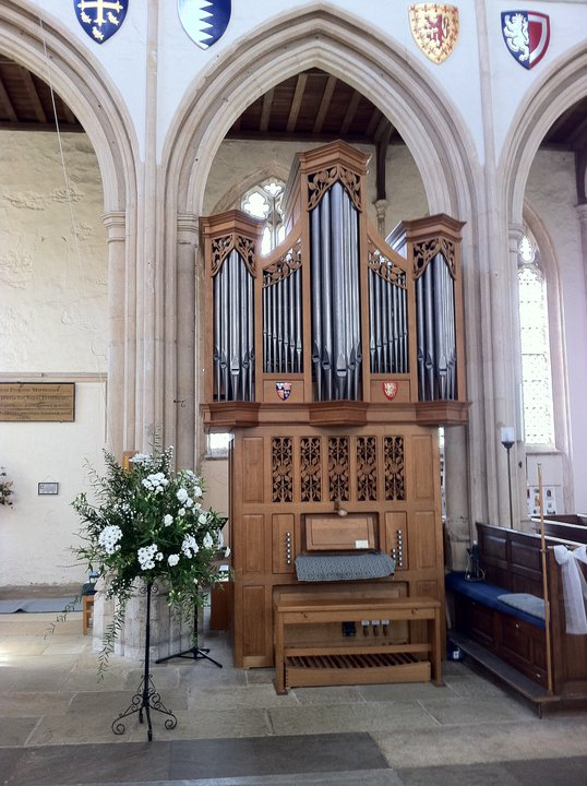 The organ in the Church of St Mary and All Saints, Fotheringhay, Northamptonshire